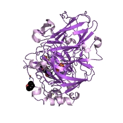 Cartoon representation of the molecular structure of protein registered with code.